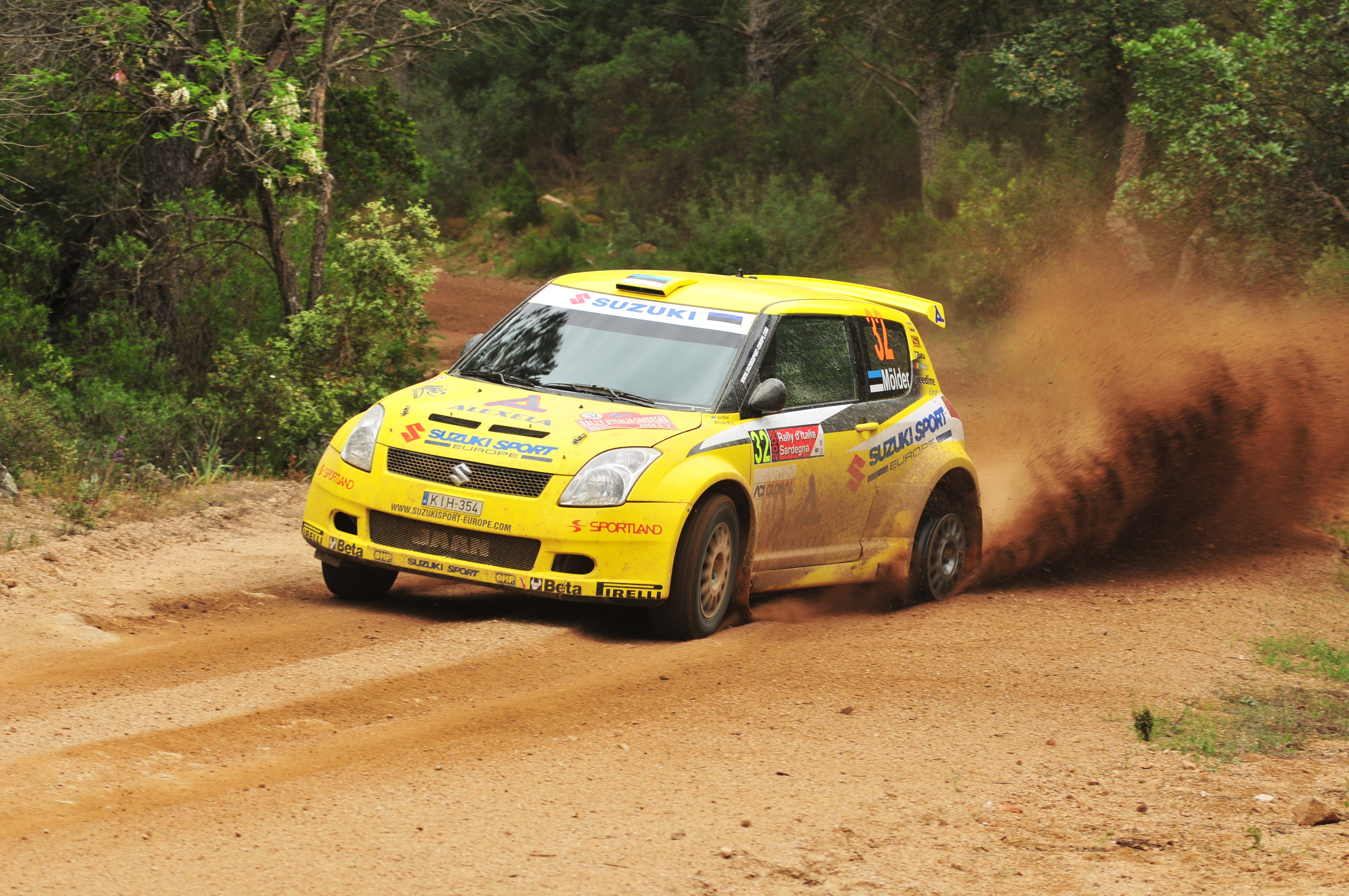 Jaan Mölder driving his Suzuki Swift S1600, with a rear wheel puncture, at the 2008 Rally d'Italia Sardegna.